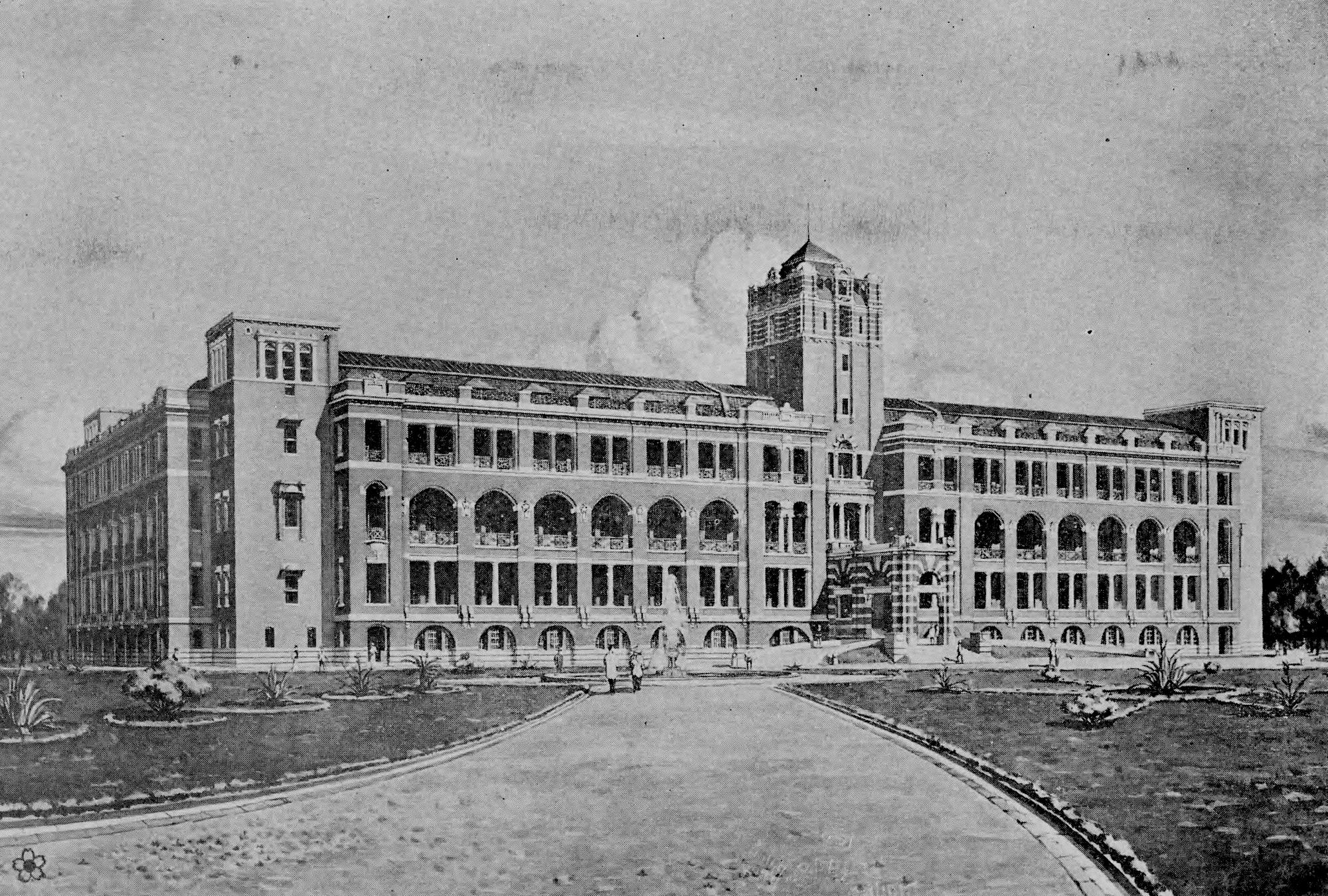 明治四十二年の設計コンペで当選した長野宇平治案「臺灣總督府廳舍」立体図。建築世界社編『工學博士長野宇平治作品集』 （建築世界社、昭和三年刊）より。 A perspective of the proposed design for the Office Building of the Governor General of Taiwan by Uheiji Nagano, which won the design competition in 1909. From Complete Work of Uheiji Nagano, DME by Architecture World, Architecture World Ltd., 1928.